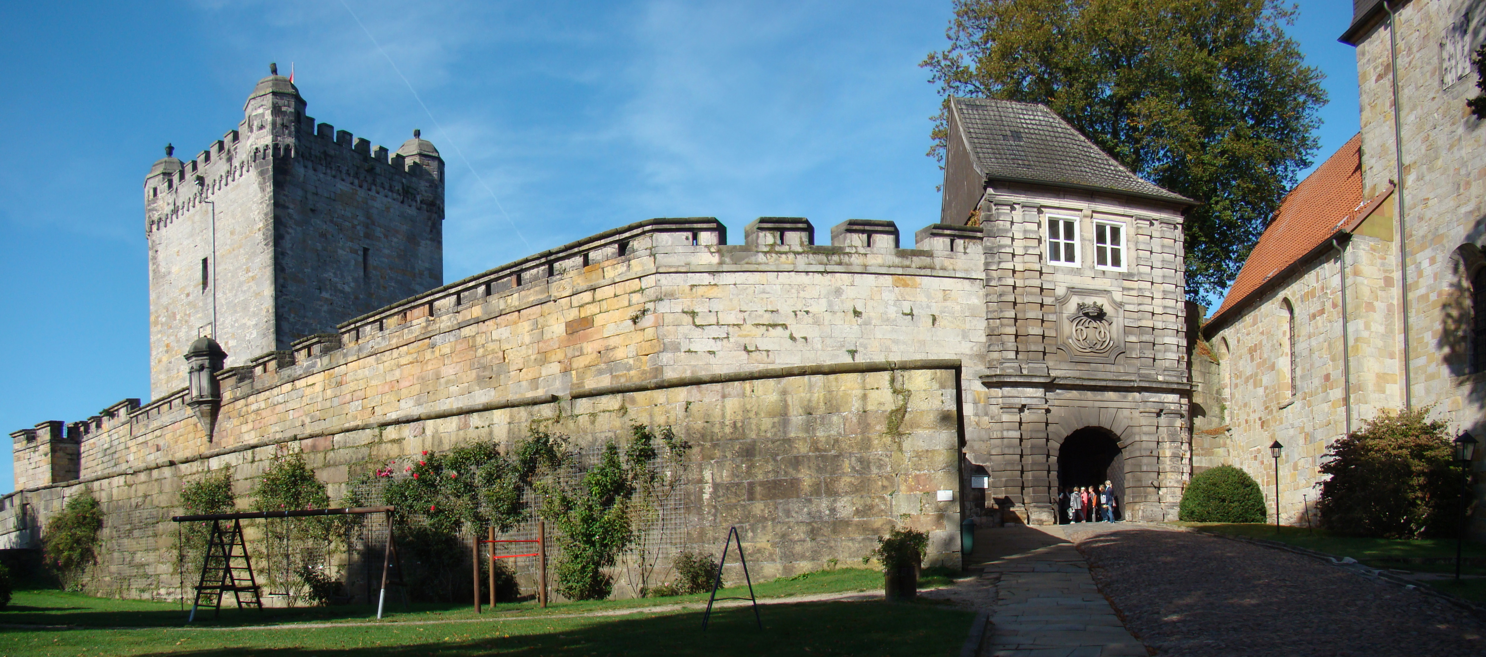 Gate of the Burg Bentheim, at Bad Bentheim, Germany